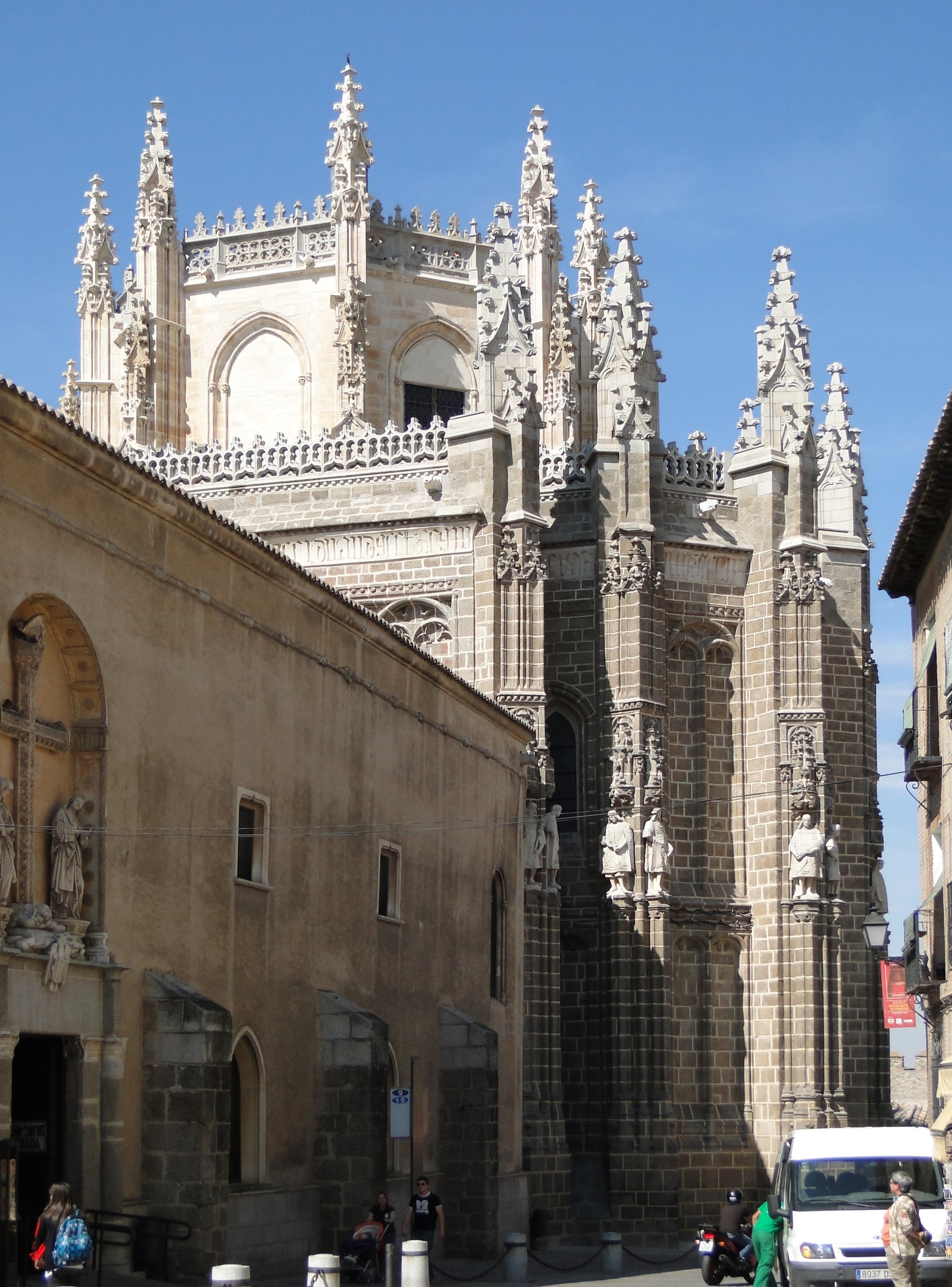 Monastery of San Juan de los Reyes, Toledo, Spain